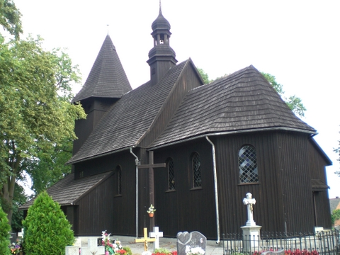 Wooden church in Laskowice, build 1686